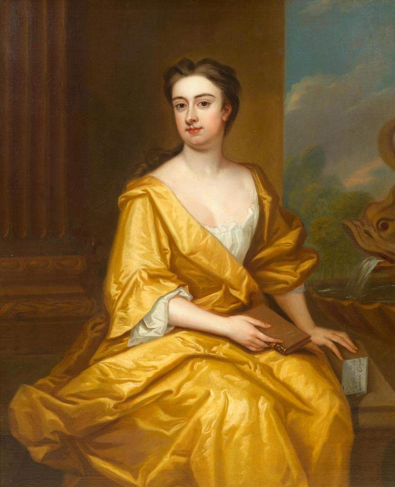 Portrait of Mary Cowperc. 1804 by School of Godfrey Kneller